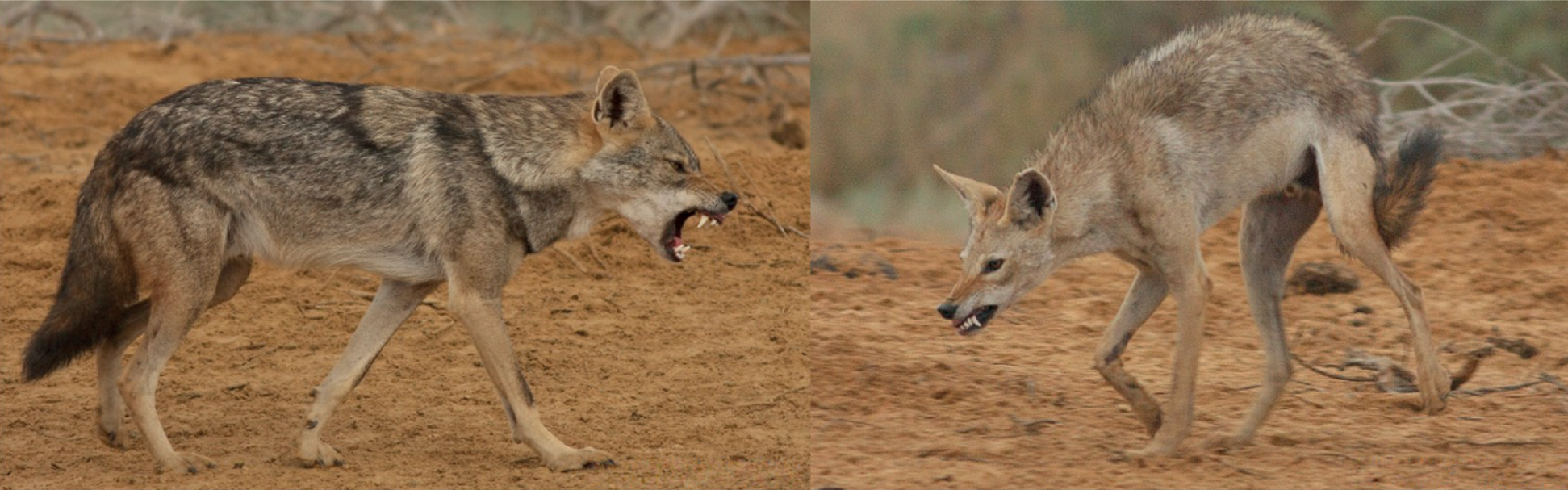 Threat posture of C. l. lupaster (left) and C. a. anthus.